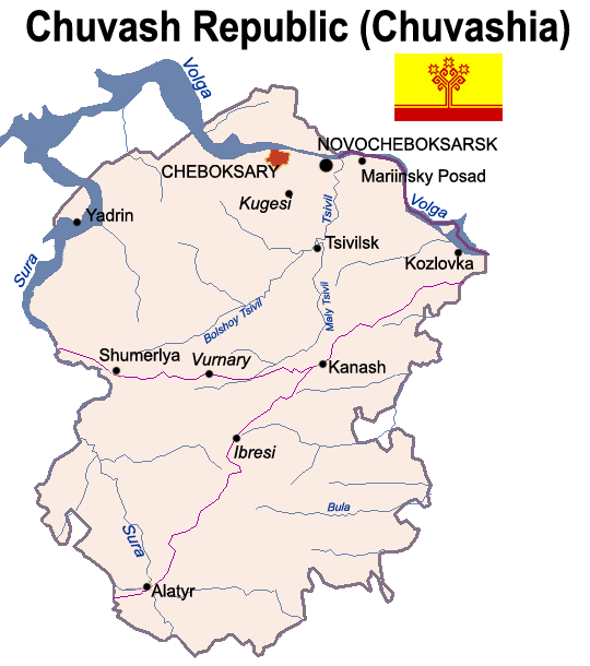 Map of Chuvashia